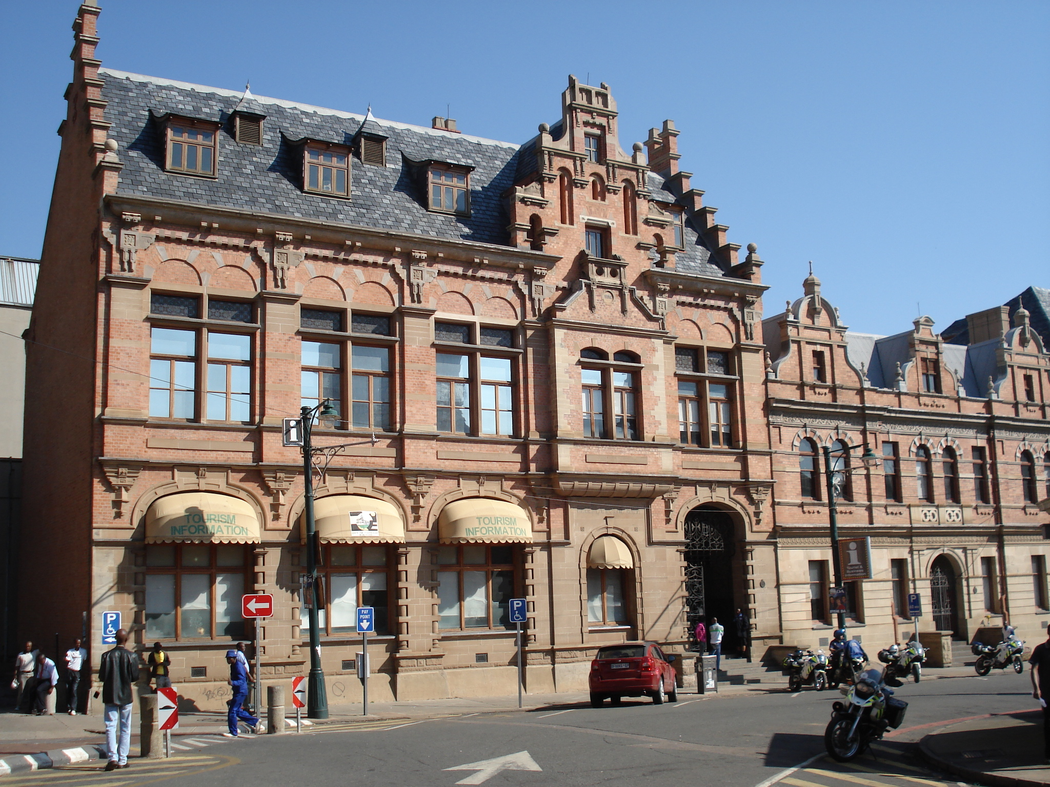 This media shows a South African Protected Site with SAHRA file reference 9/2/258/0006.